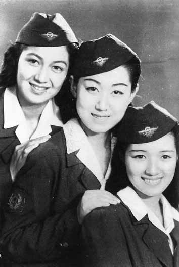 Setsuko Hara、Hisako Yamane and Hideko Takamine in 1945 Japanese movie Kita no 3nin(Northern 3 Women).